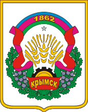 Krymsk (Krasnodar krai), fcoat of arms (1999)